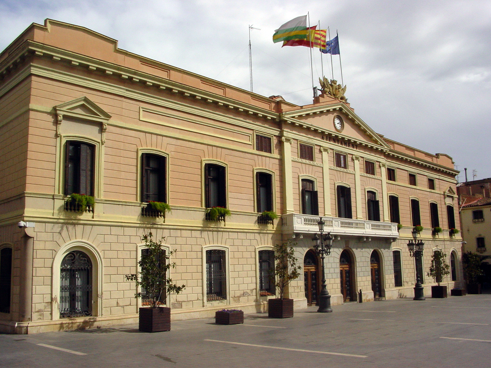 Townhall of Sabadell, in Vallès Occidental